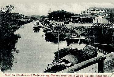 a river scene in Zikawei (Xujiahui), in Shanghai, in the 1920s, with the Jesuit mission and observatory in the background